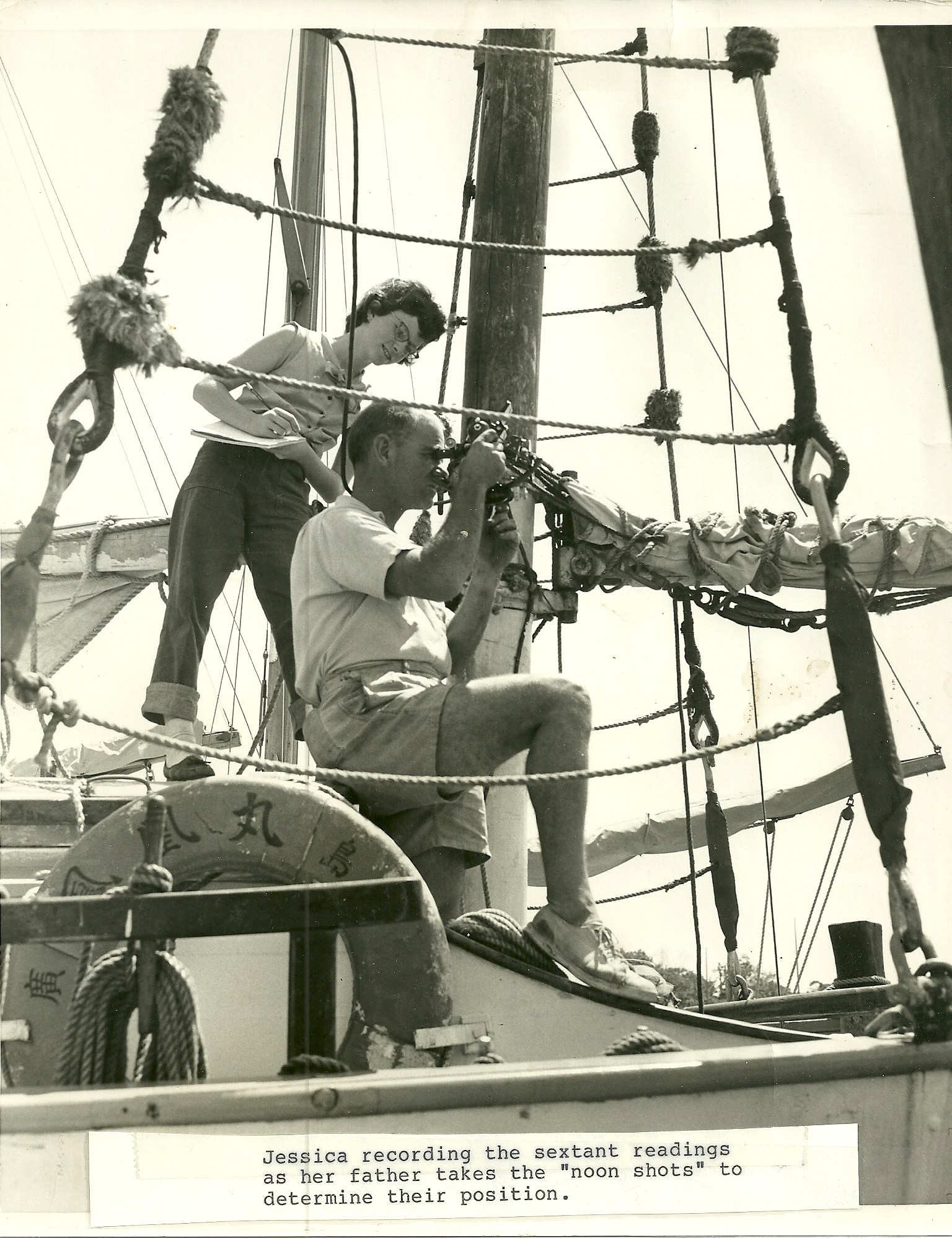 Skipper (Earle Reynolds) and daughter Jessica, 14, taking noon sextant readings. Photo by Barbara Leonard Reynolds, died 1990; copyright inherited by Jessica Reynolds Renshaw (self)